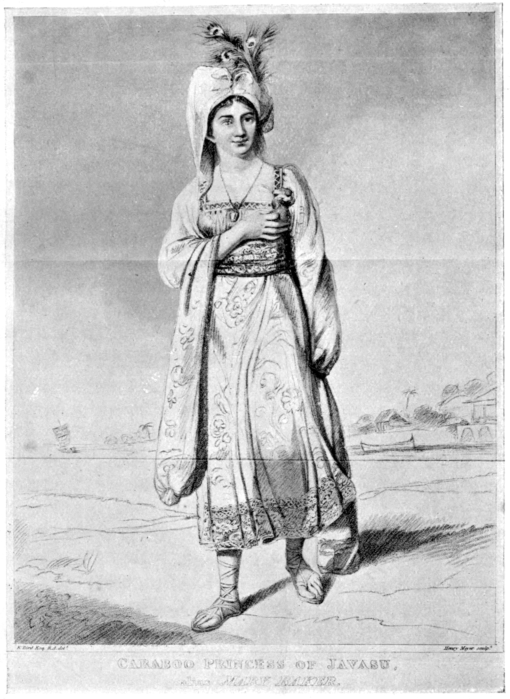 An image from a book